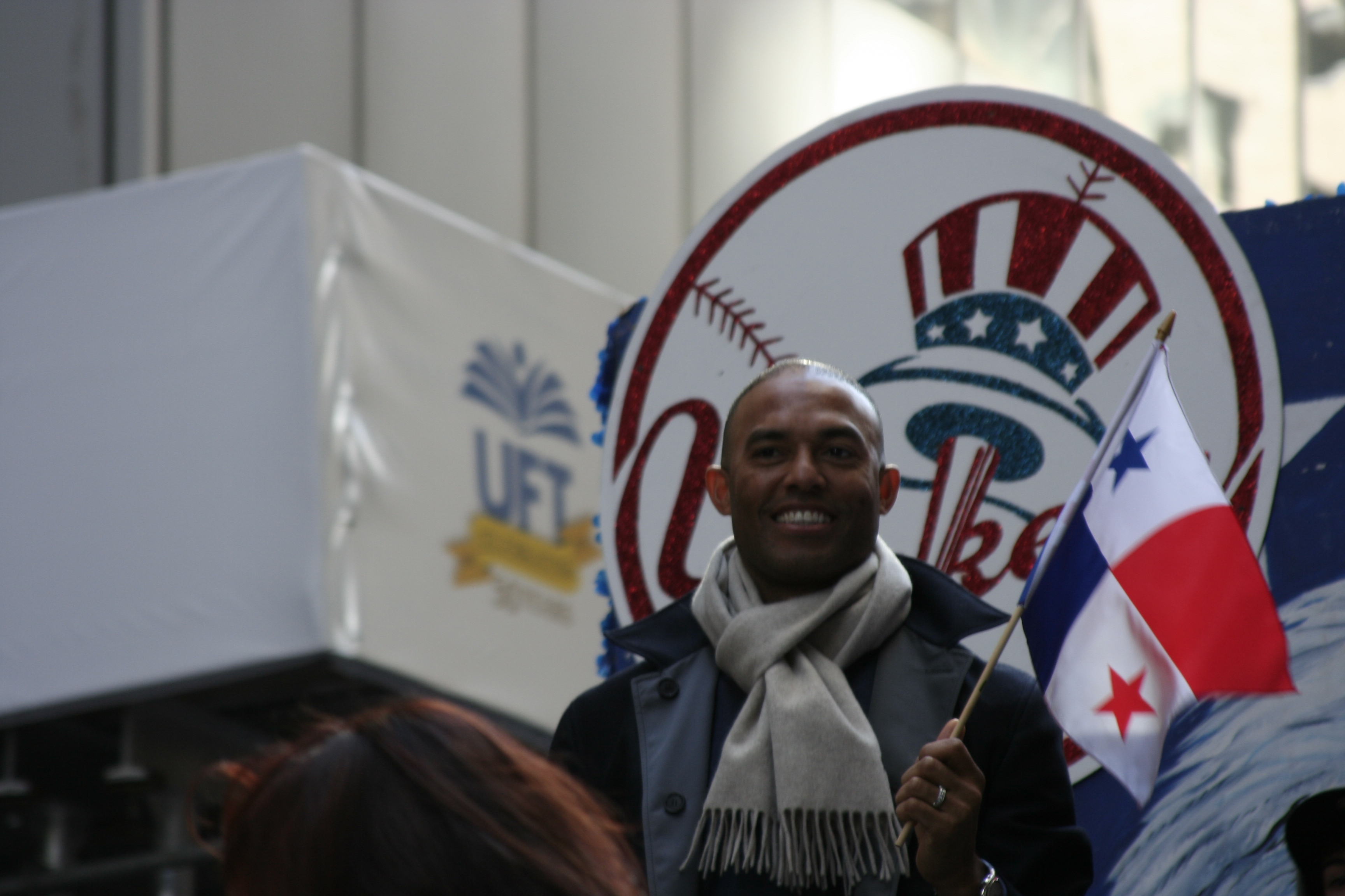 Mariano Rivera